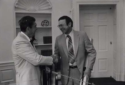 President Ronald Reagan and Don Young (3-11) Meeting with Congressman Don Young and presentation of fly fishing rod President Ronald Reagan, G. William Whitehurst, and Skip Wilkins (14-34) Meeting with Skip Wilkins, author of "The Real Race"